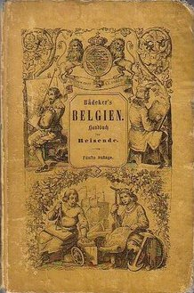 Frontcover of Baedeker's Belgien 1853